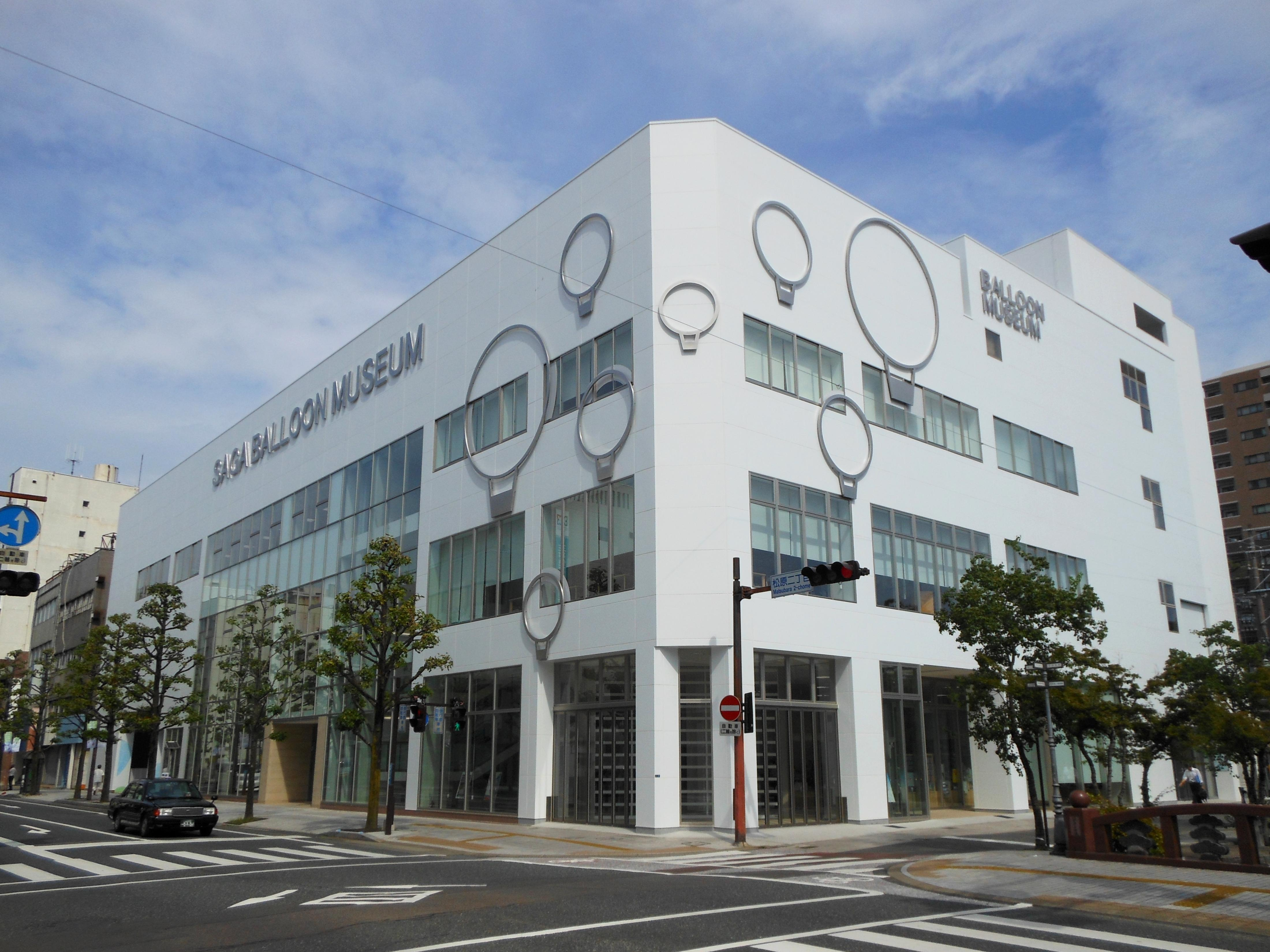 Saga balloon museum in Matsubara, Saga city.